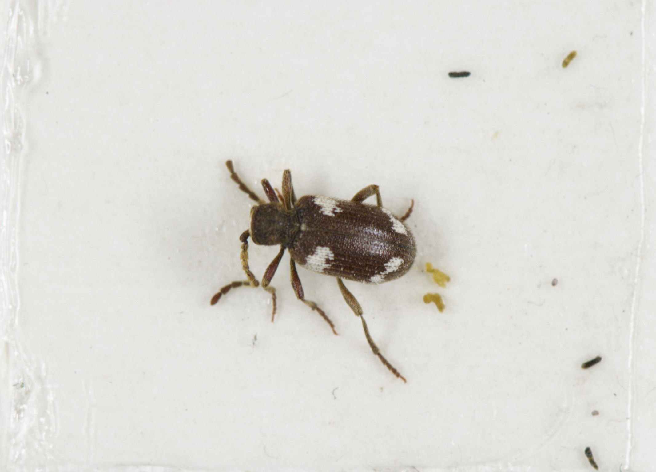 Ptinus sexpunctatus, Six-spotted Spider Beetle, caught on a sticky blunder trap.